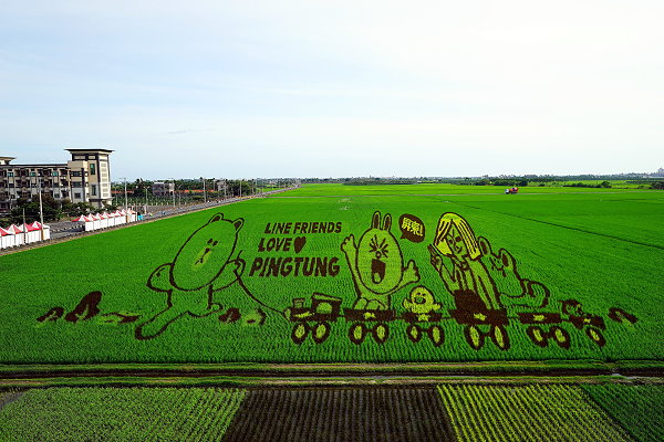 國際彩稻藝術節line